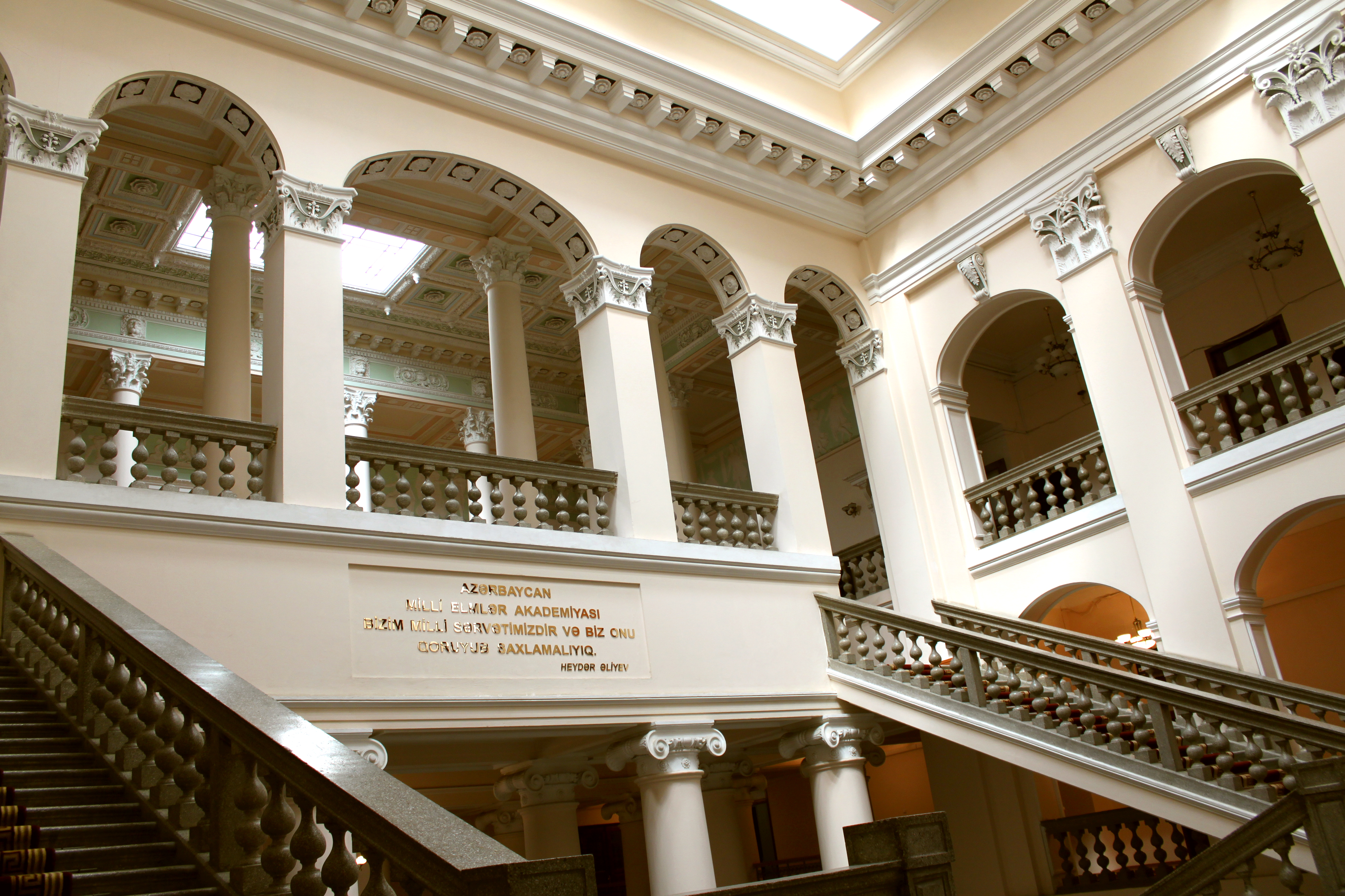 İsmailiyye palace crush-room